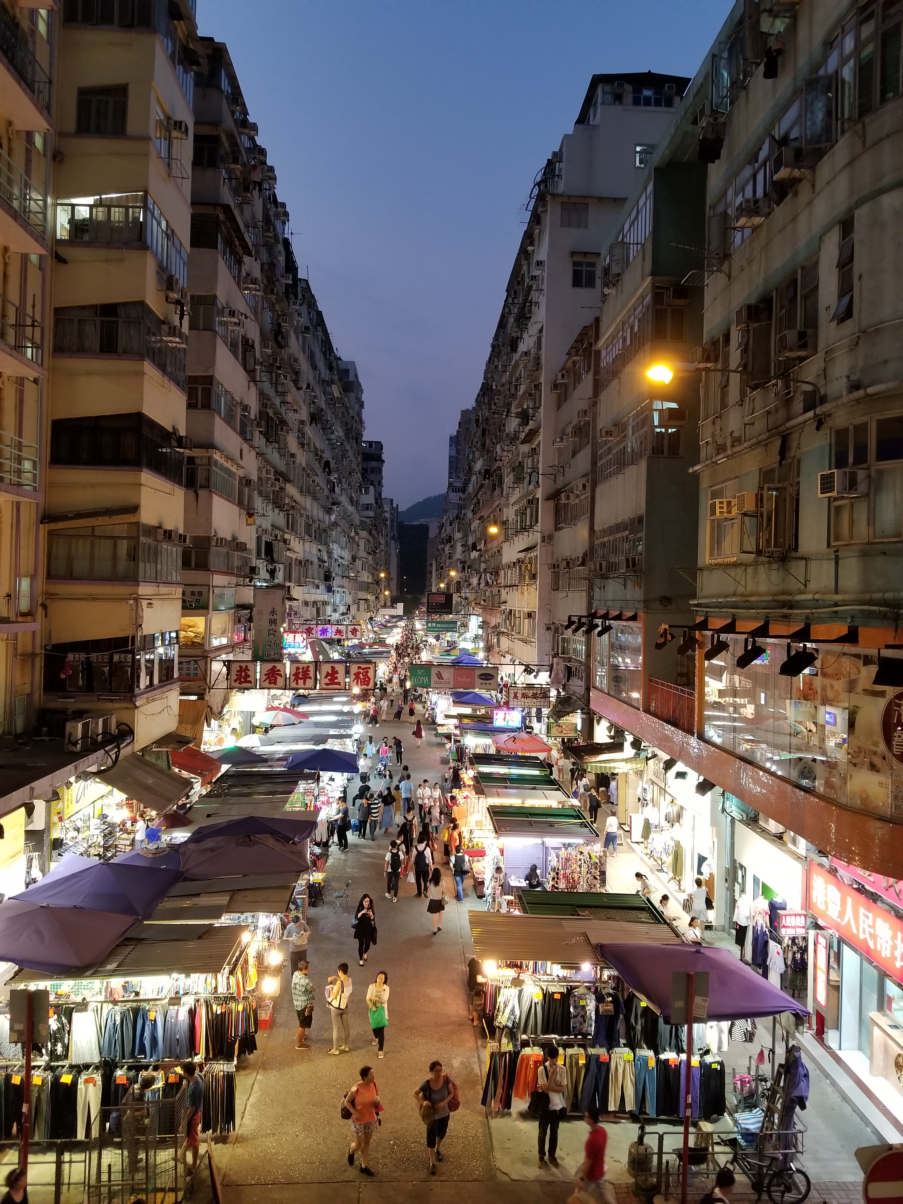 Fa Yuen Street, Mong Kok, Kowloon, Hong Kong.